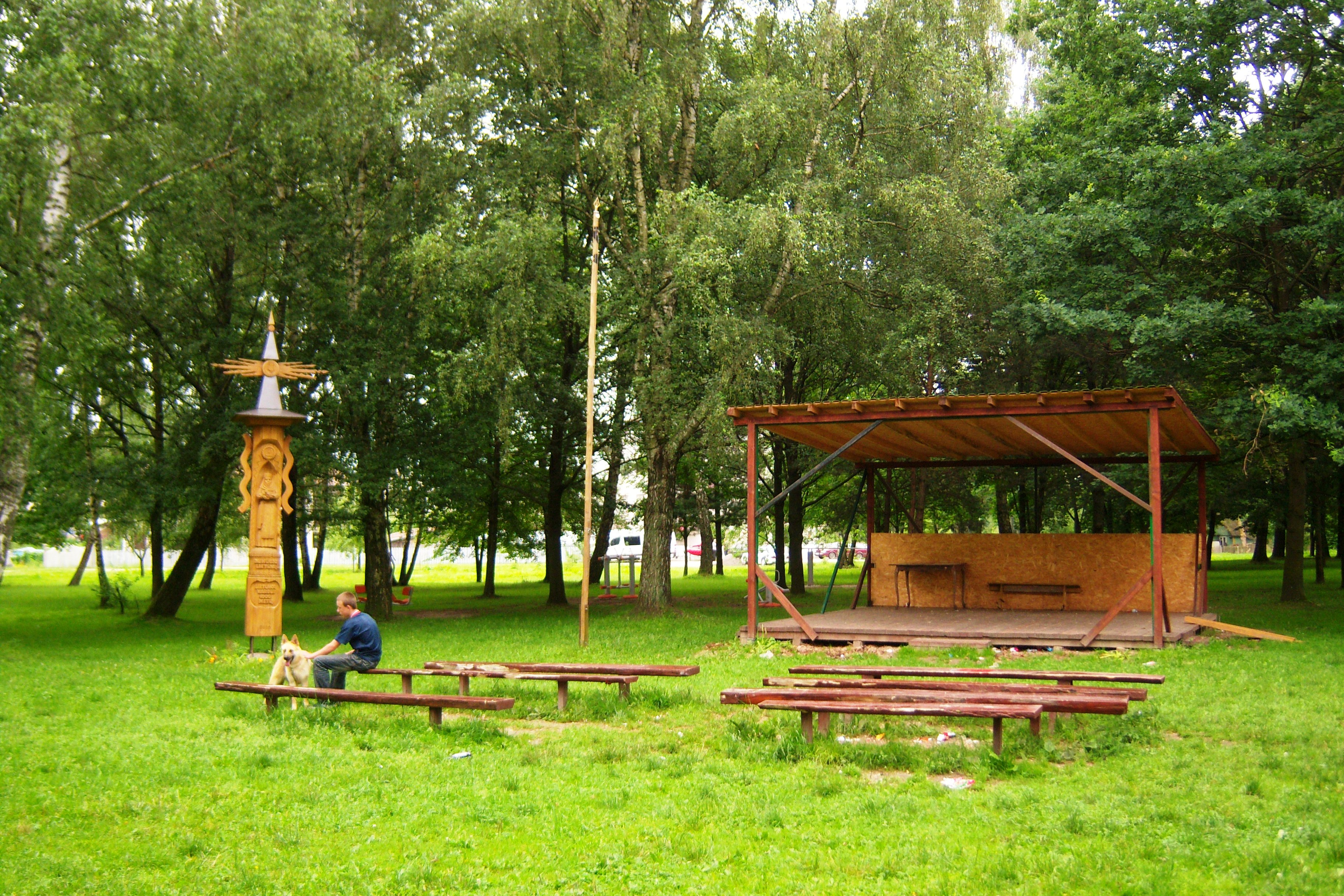 Naugardiškės park, meeting site, Kaunas, Lithuania